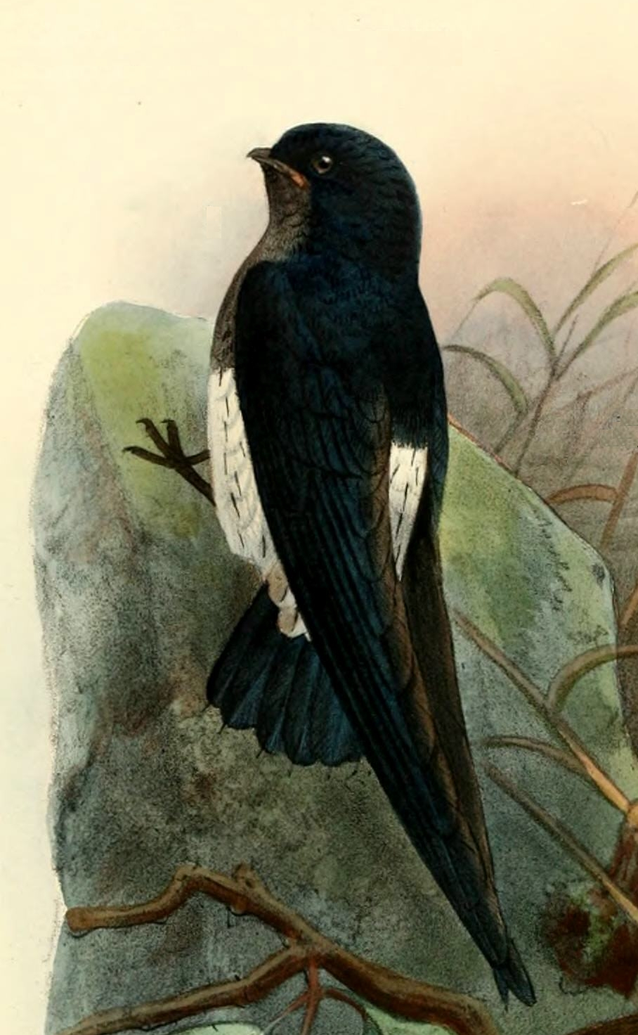 Chaetura thomensis Hart. = Zoonavena thomensis (Hartert, 1900) (São Tomé Spinetail)